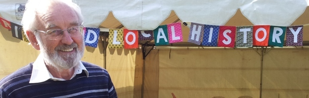 David Blomfield